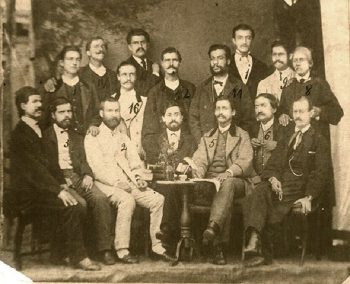 Teachers in the Samokov Eparchy in 1874